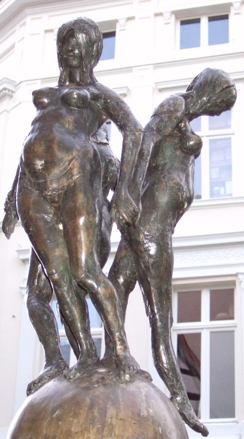 Drei Grazien